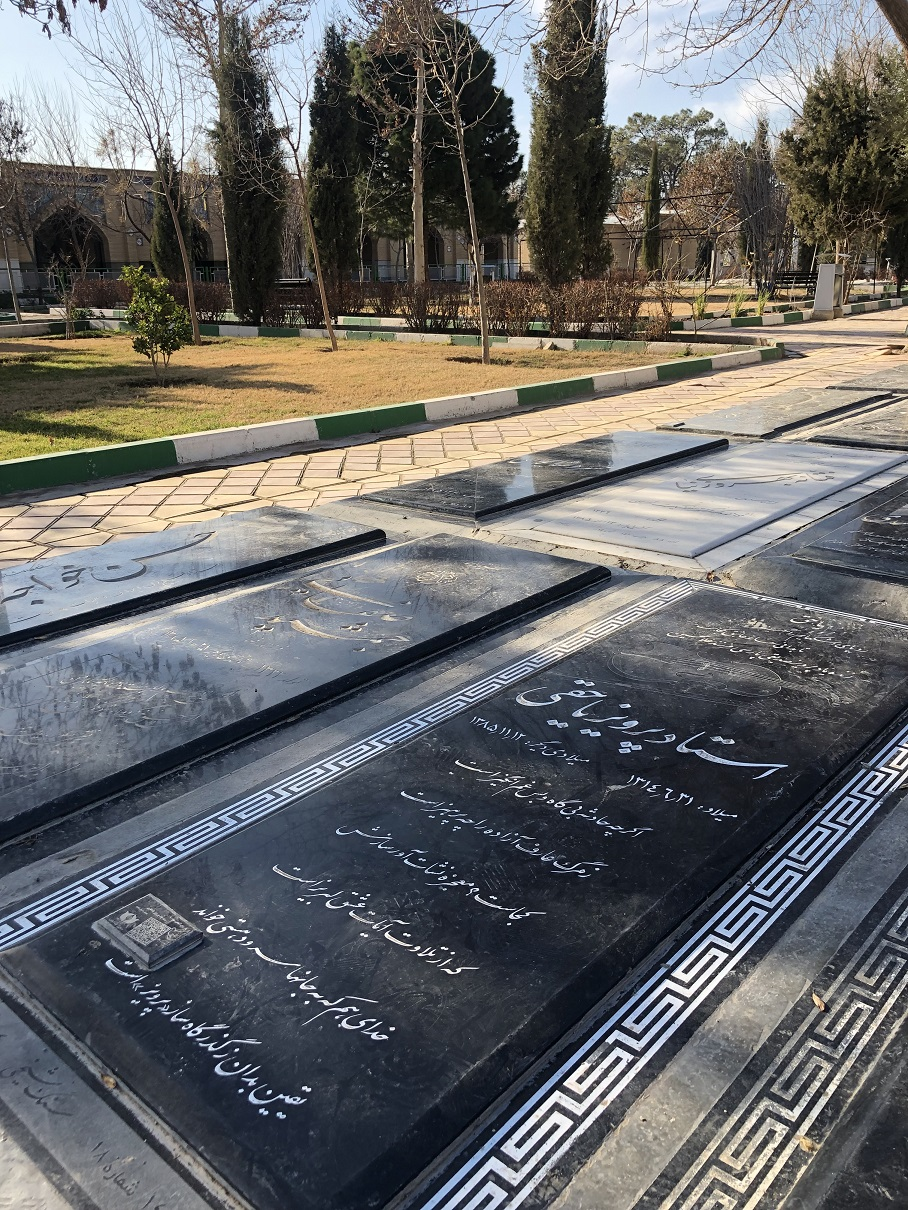 Beheshte Zahra Cemetery